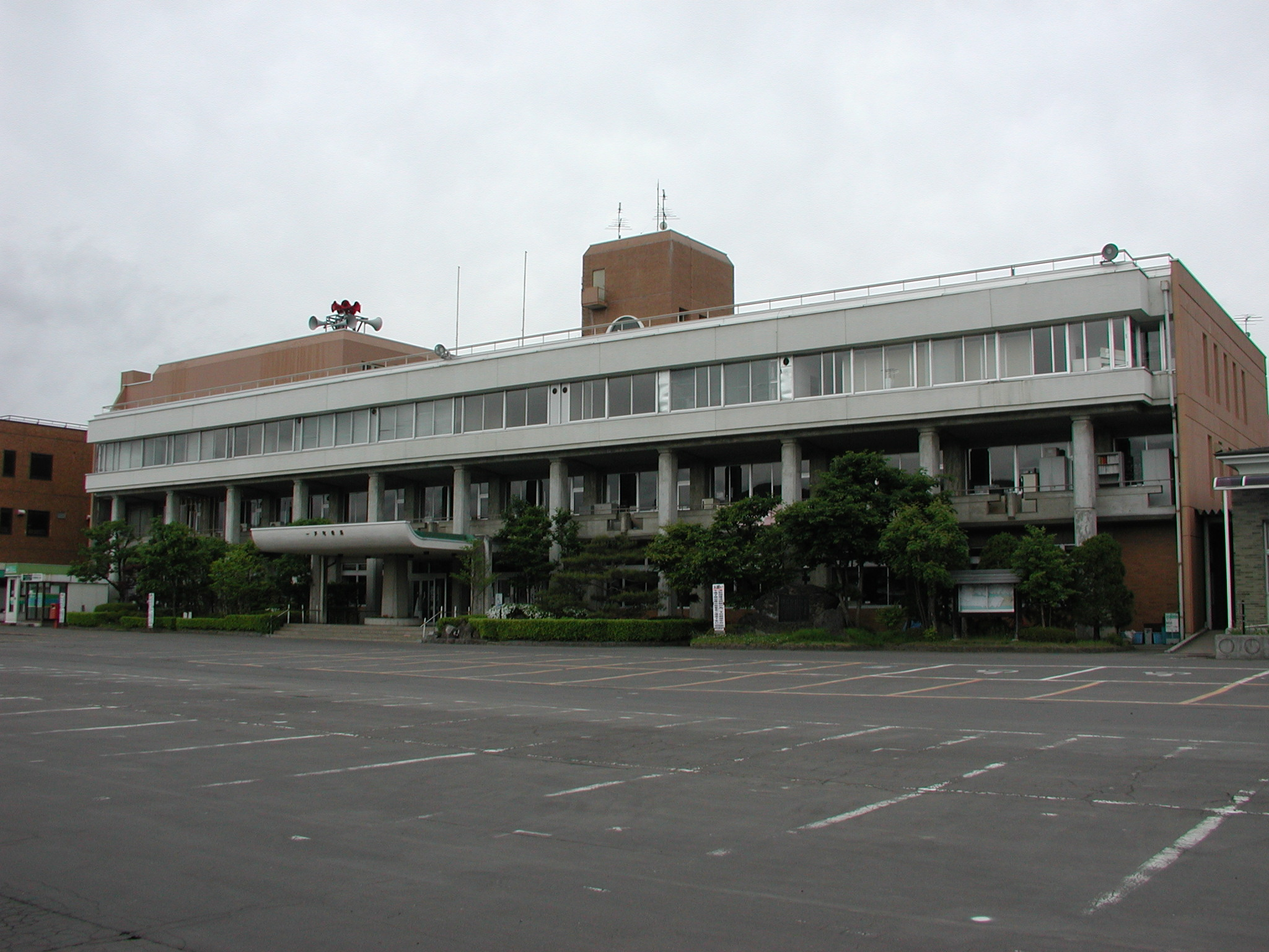 Ichinohe Town Office Iwate Japan